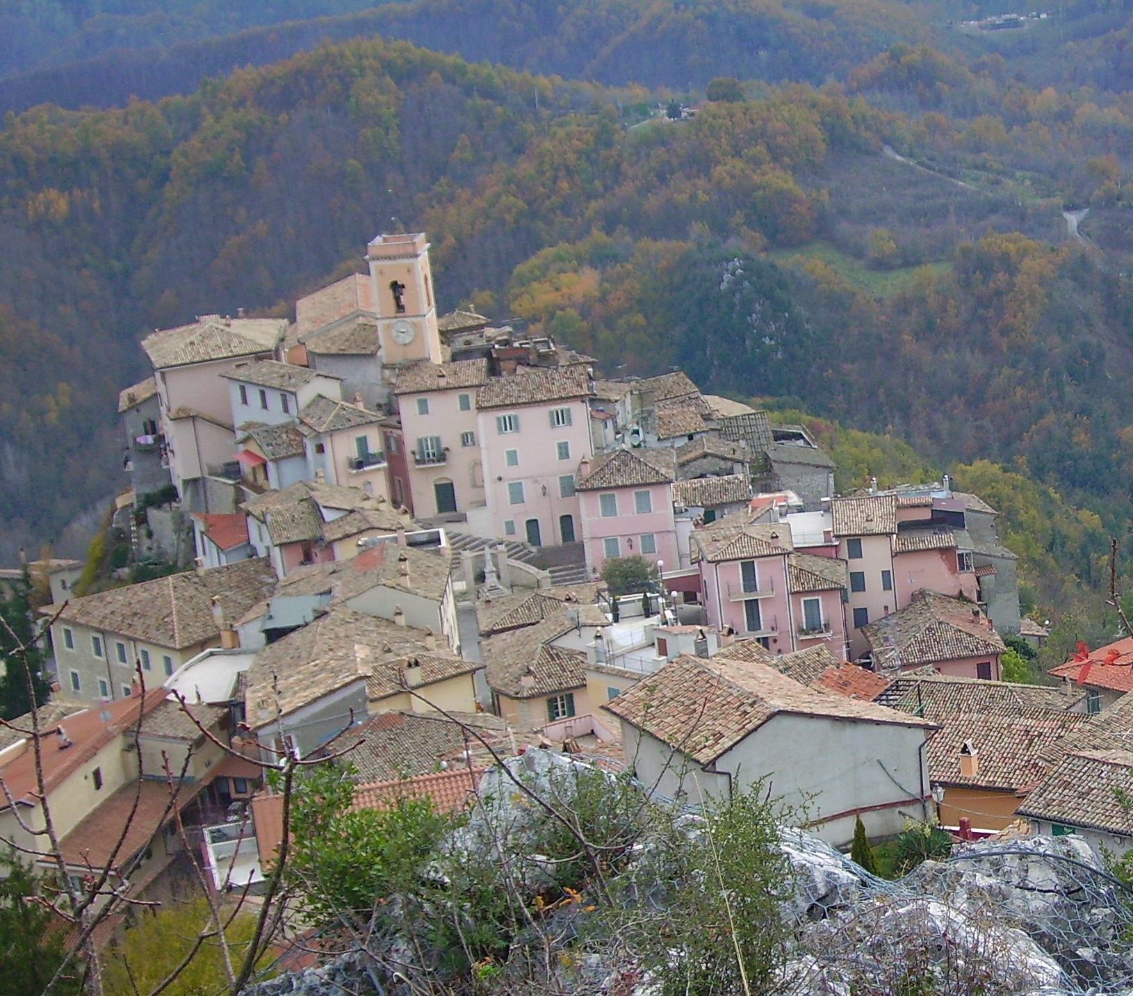 Canterano from Mount Ruffo